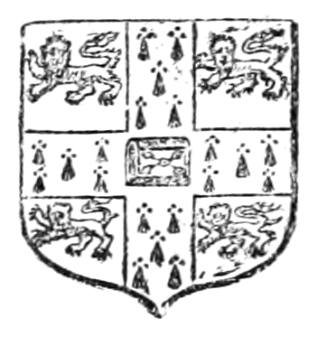 Logo of Cambridge University Press